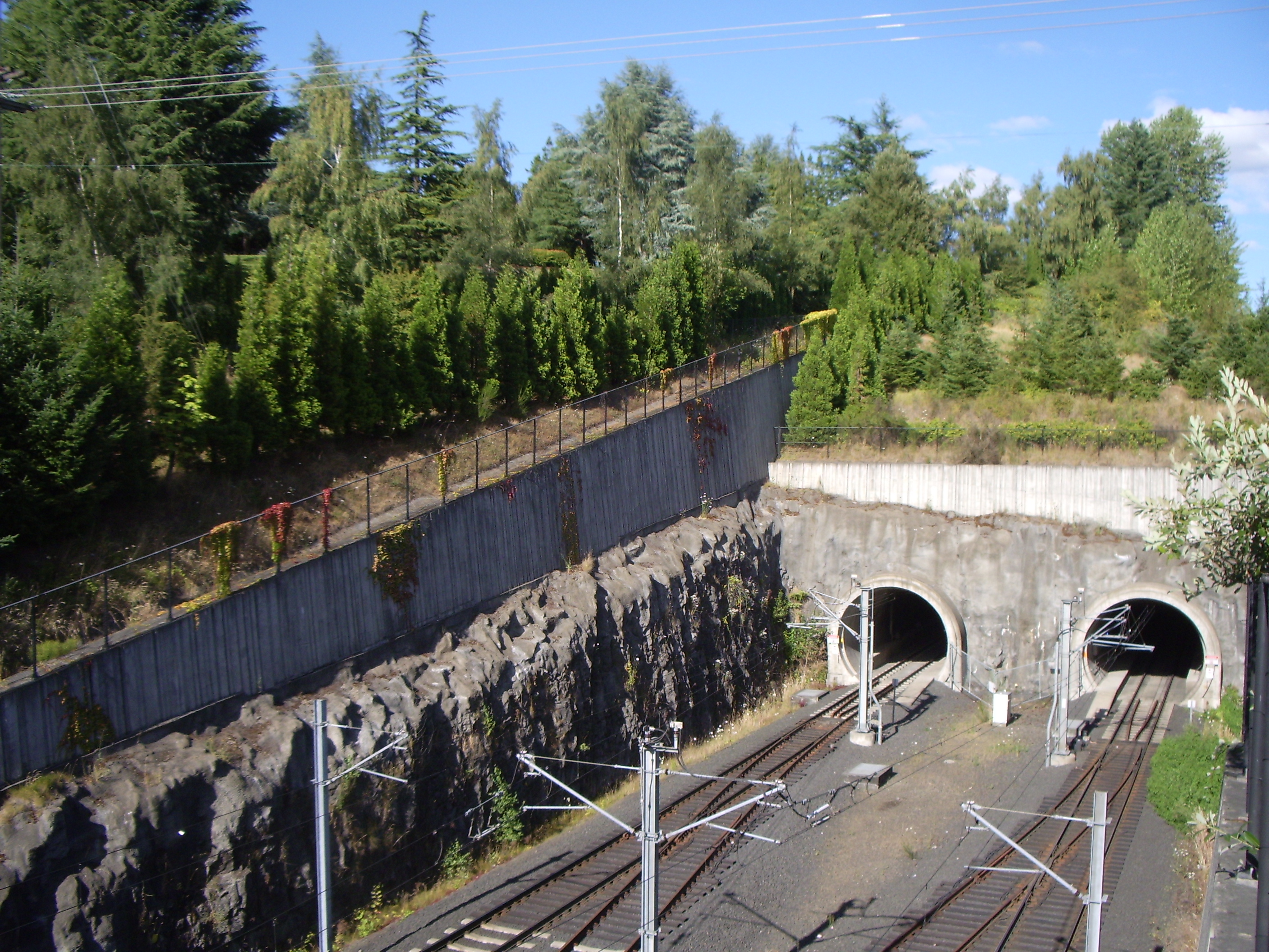 The west end of Robertson Tunnel can be seen from the Sunset Highway. It is at the west edge of Finley-Sunset Hills Mortuary and Sunset Hills Memorial Park. The diverging tracks lead to a pocket track which allows a full train to be removed from both tracks for passing and tunnel traffic management.